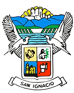 Coat of Arms of San Igncio, Sinaloa